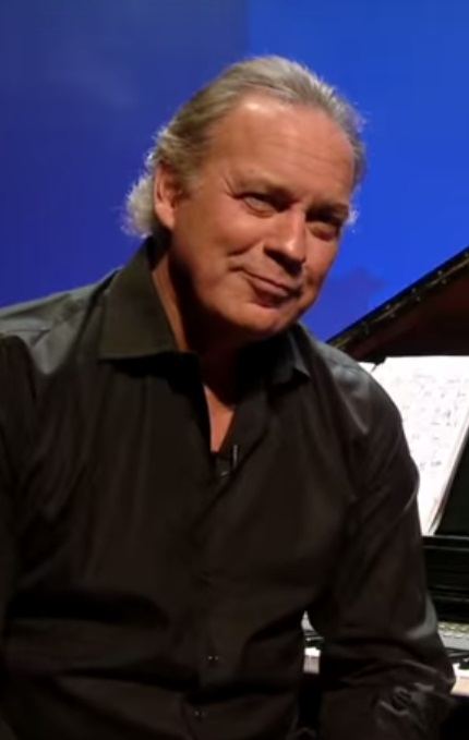 Spanish singer and TV Presenter Bertín Osborne